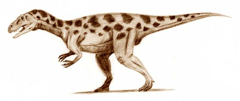 Torvosaurus tanneri, pencil drawing, based on the skeleton at the Brigham Young University Earth Science Museum Author: User:ArthurWeasley